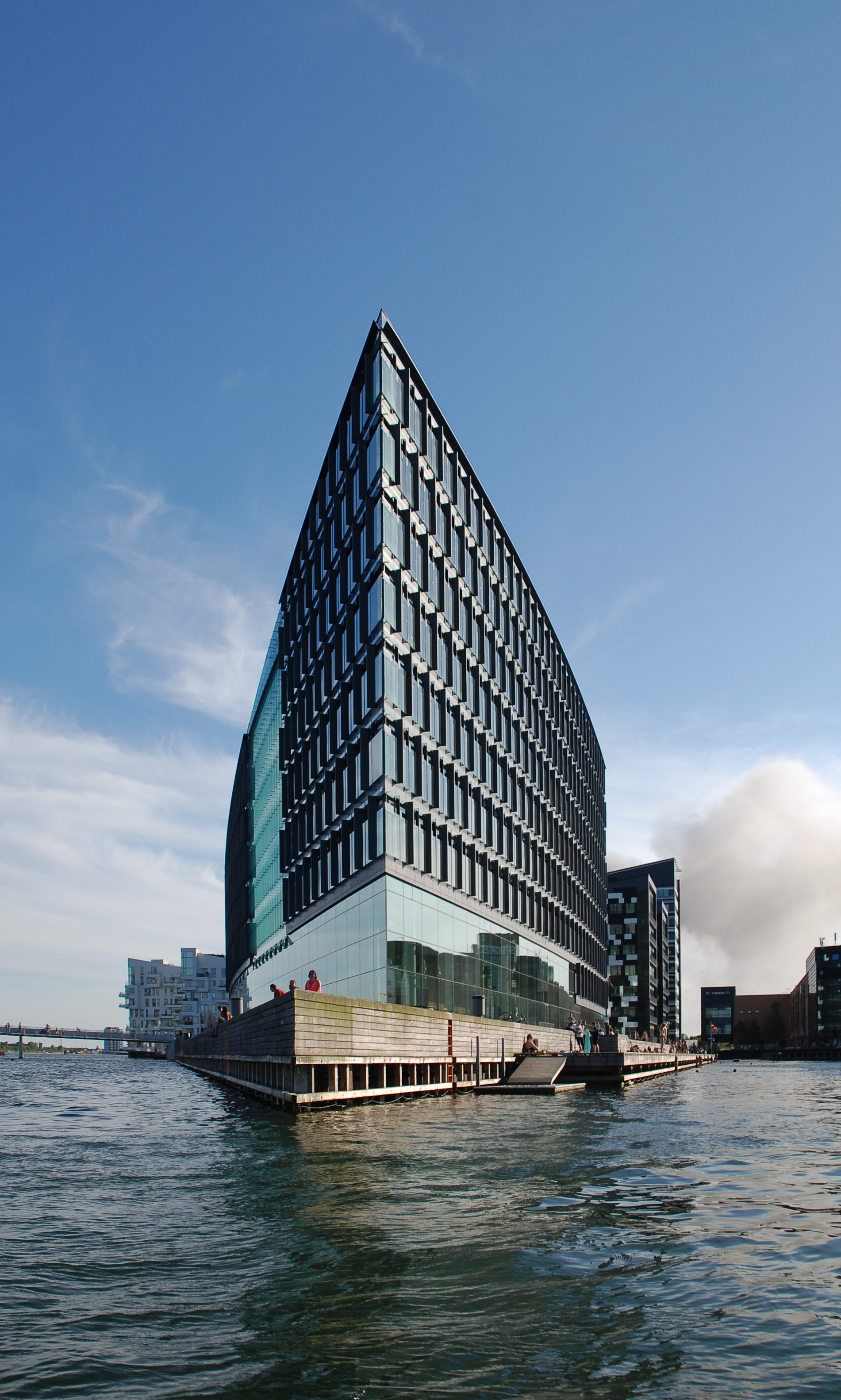 Headquarters of Aller Media on Havneholmen in Copenhagen, July 2013